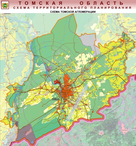 Tomsk Oblast Regional planning map (project), Tomsk metropolitain area map